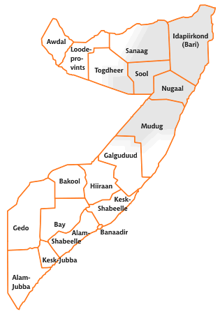 Locator map of Puntland (fuzzy borders).